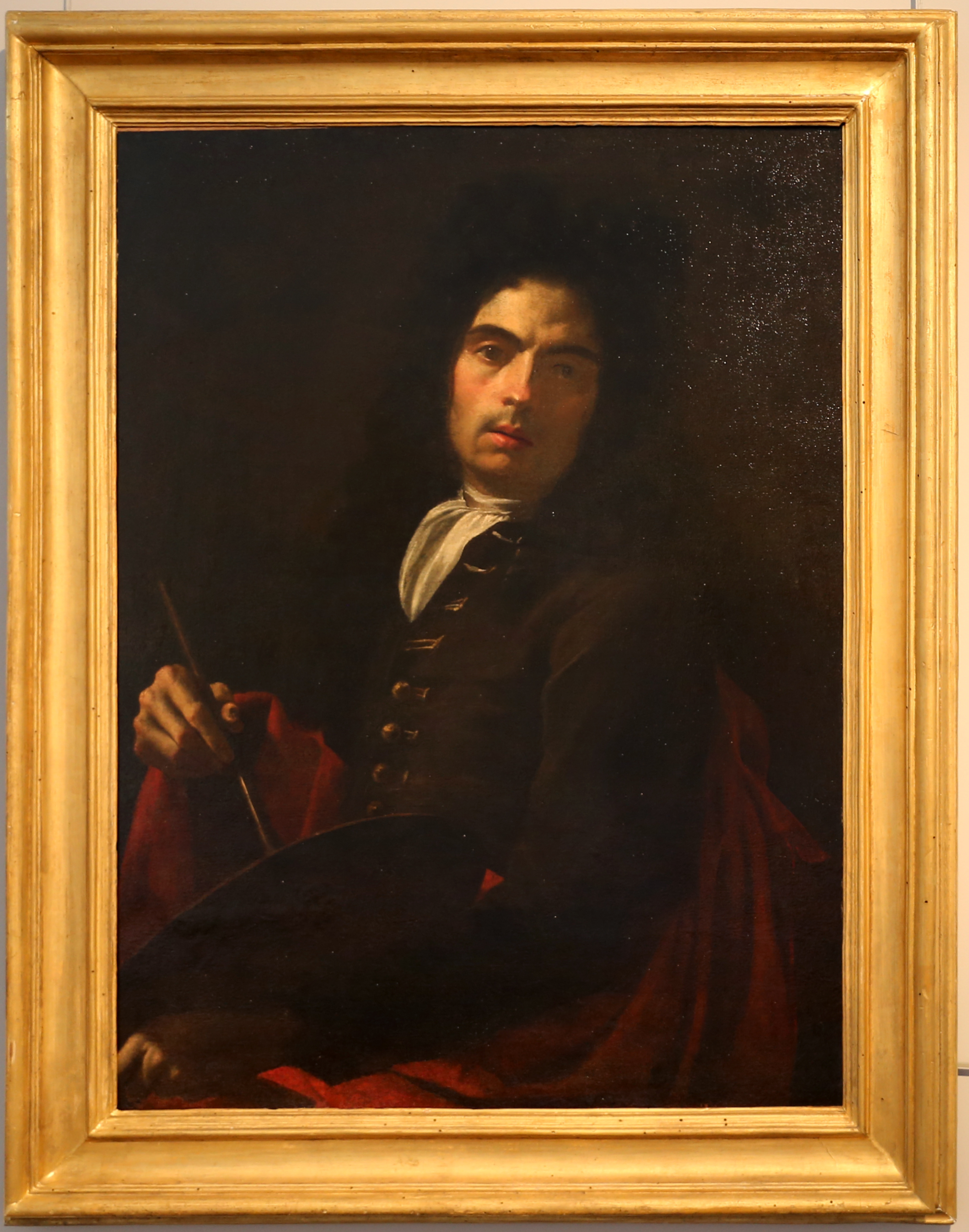 Paintings in the Musée Fesch